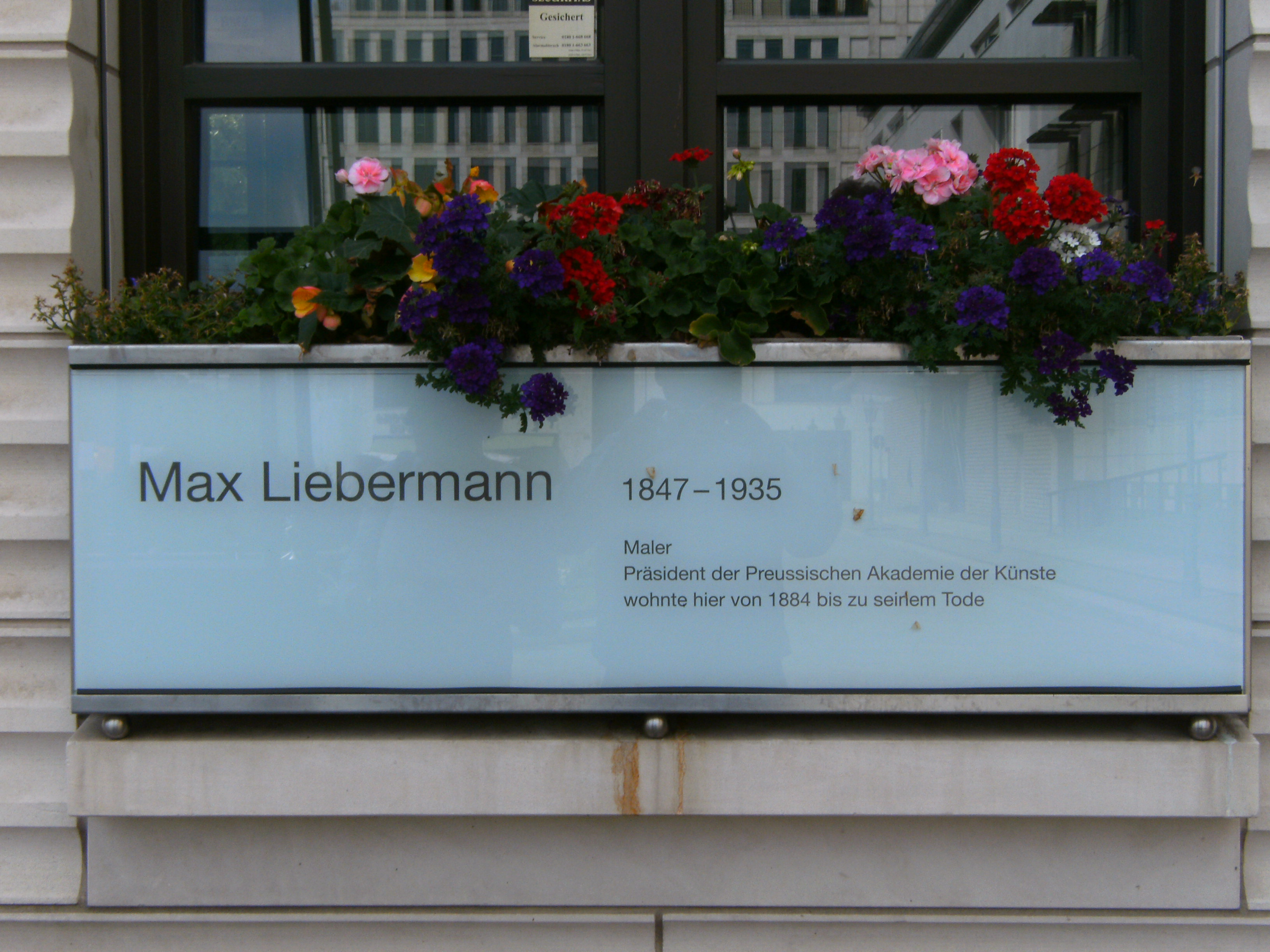 Max Liebermann: House at Pariser Platz 7 in Berlin (at Brandenburger Tor). Plaque to remember.